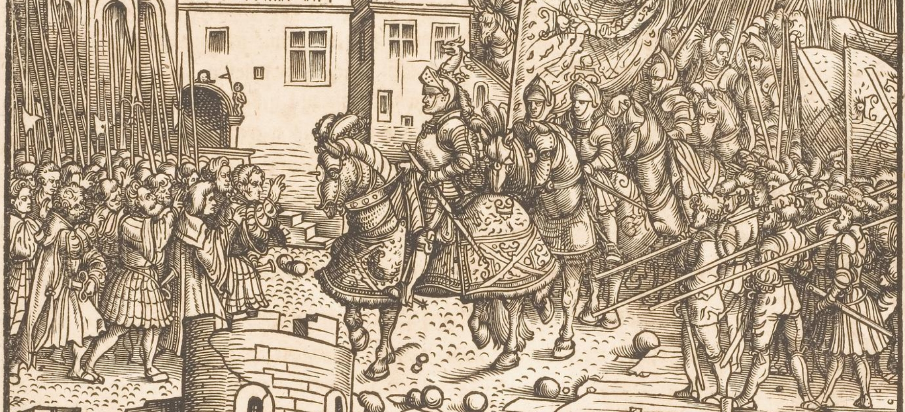 See title